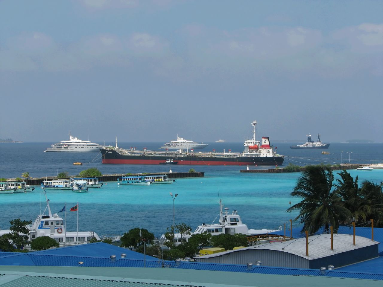 Inside the seawall : Ferry boats waiting for there turn, out side a oil tanker supplying fuel to the airport and some luxurious yatches.